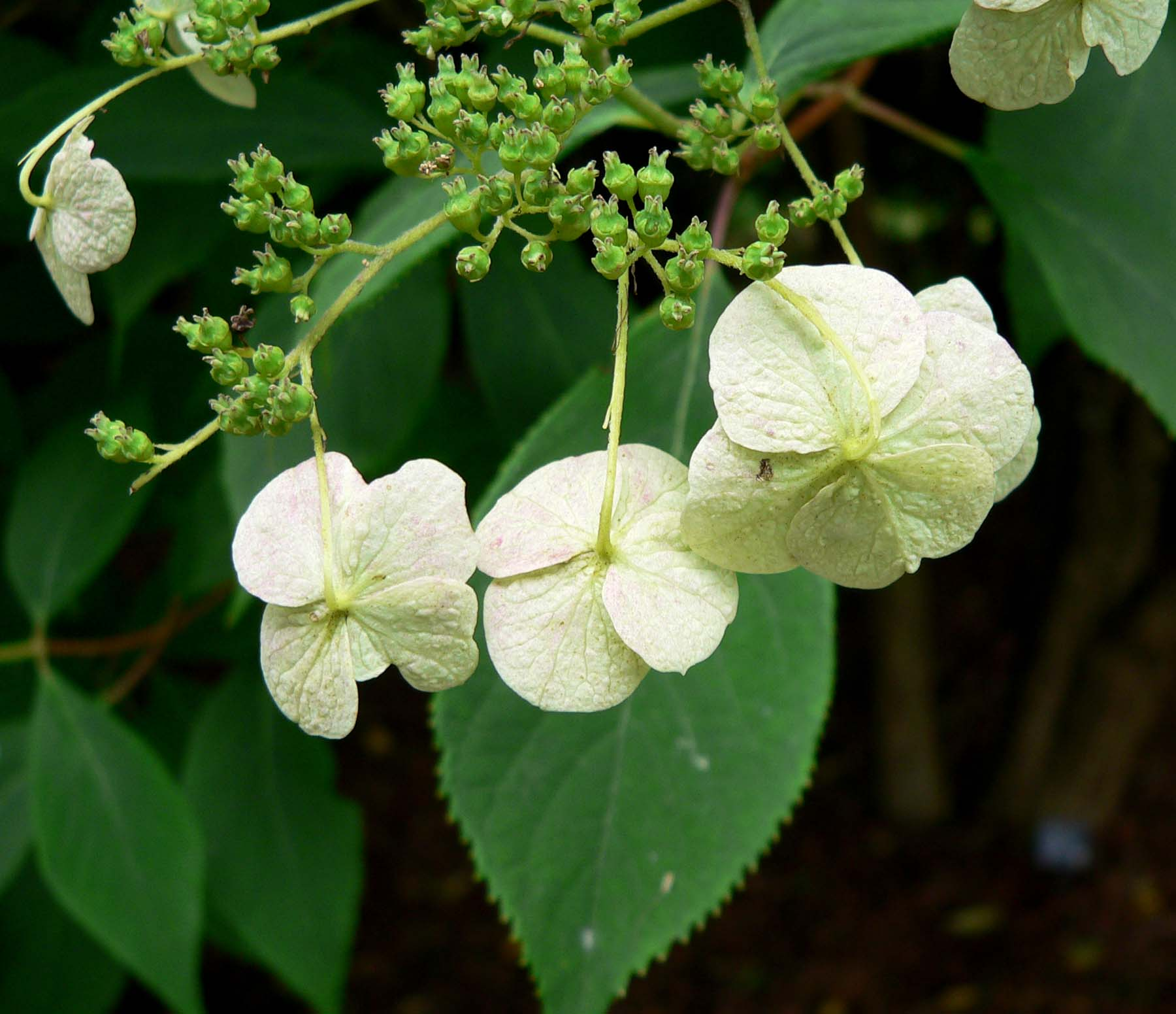 Photo of Hydrangea heteromalla at the UBC Botanical Garden in Vancouver